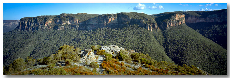 Priboj_nature